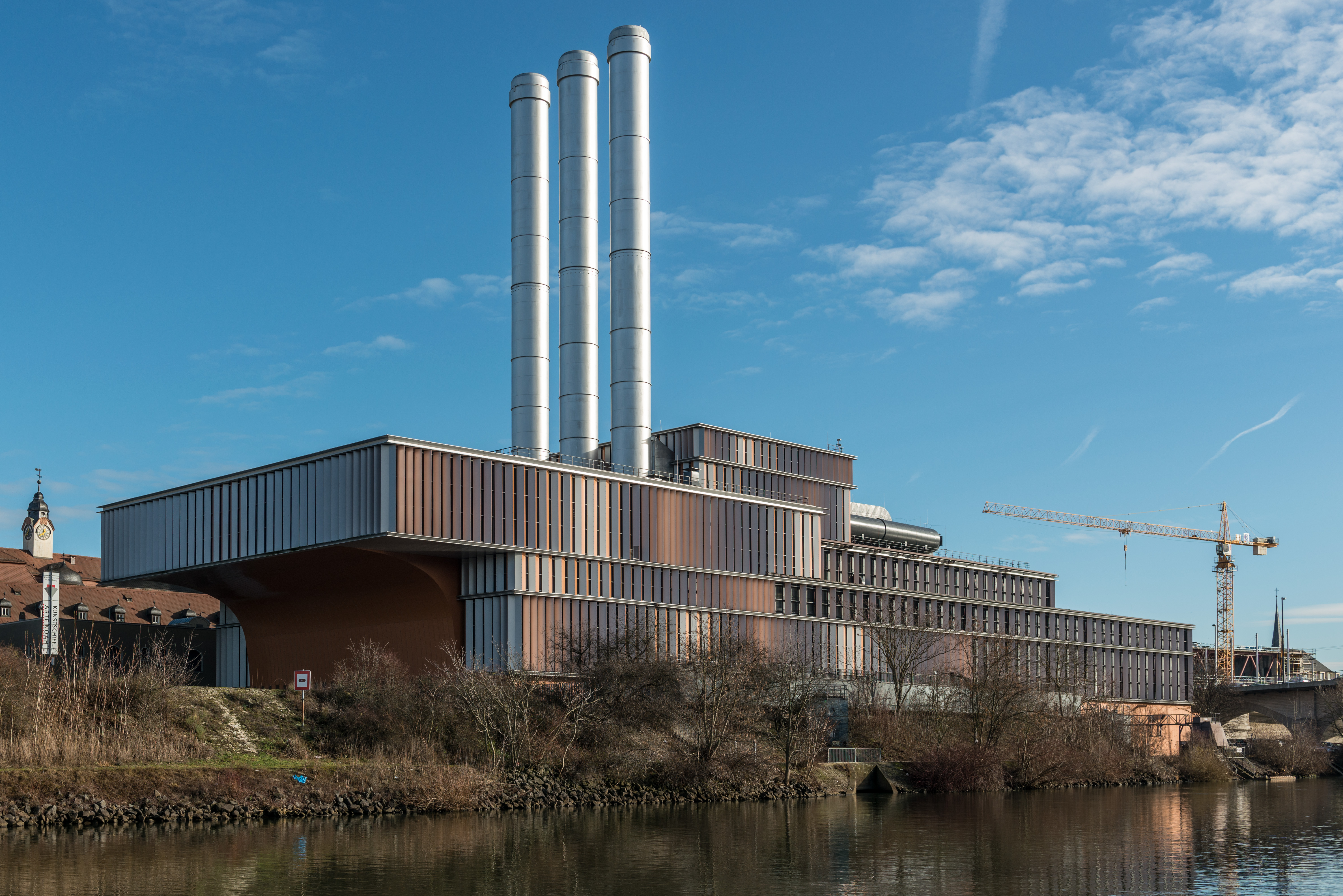 The Würzburg combined heat and power station